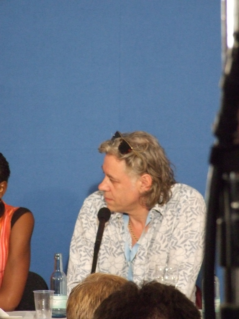 Bob Geldof together with Bono and ?? at the Media Centre Kühlungsborn Who is the third guy? I first thought youssou n' dour, but...